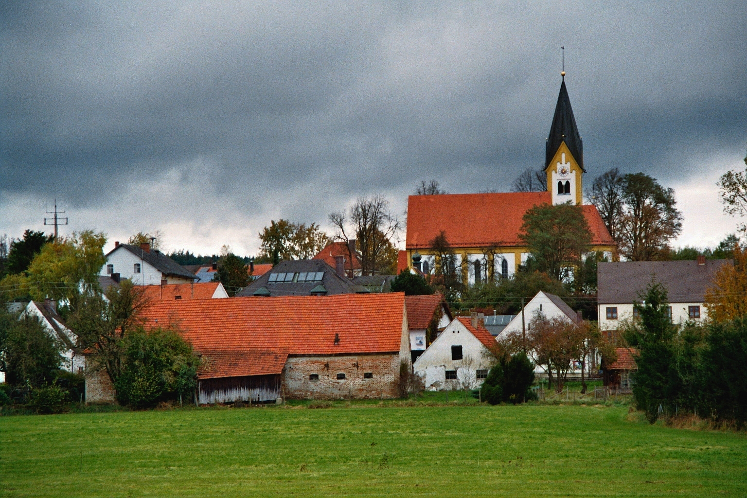 View of Ehekirchen with the Roman catholic Saint Stephen church. Ehekirchen, District Neuburg-Schrobenhausen, Bavaria, Germany.